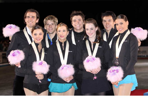 Silver medals from Team Canada pose together:(from row,from left)Jessica Dubé,Joannie Rochette,Tessa Virtue,Cynthia Phaneuf;(back row,from left)Bryce Davison,Vaughn Chipeur,Scott Moir,Patrick Chan.